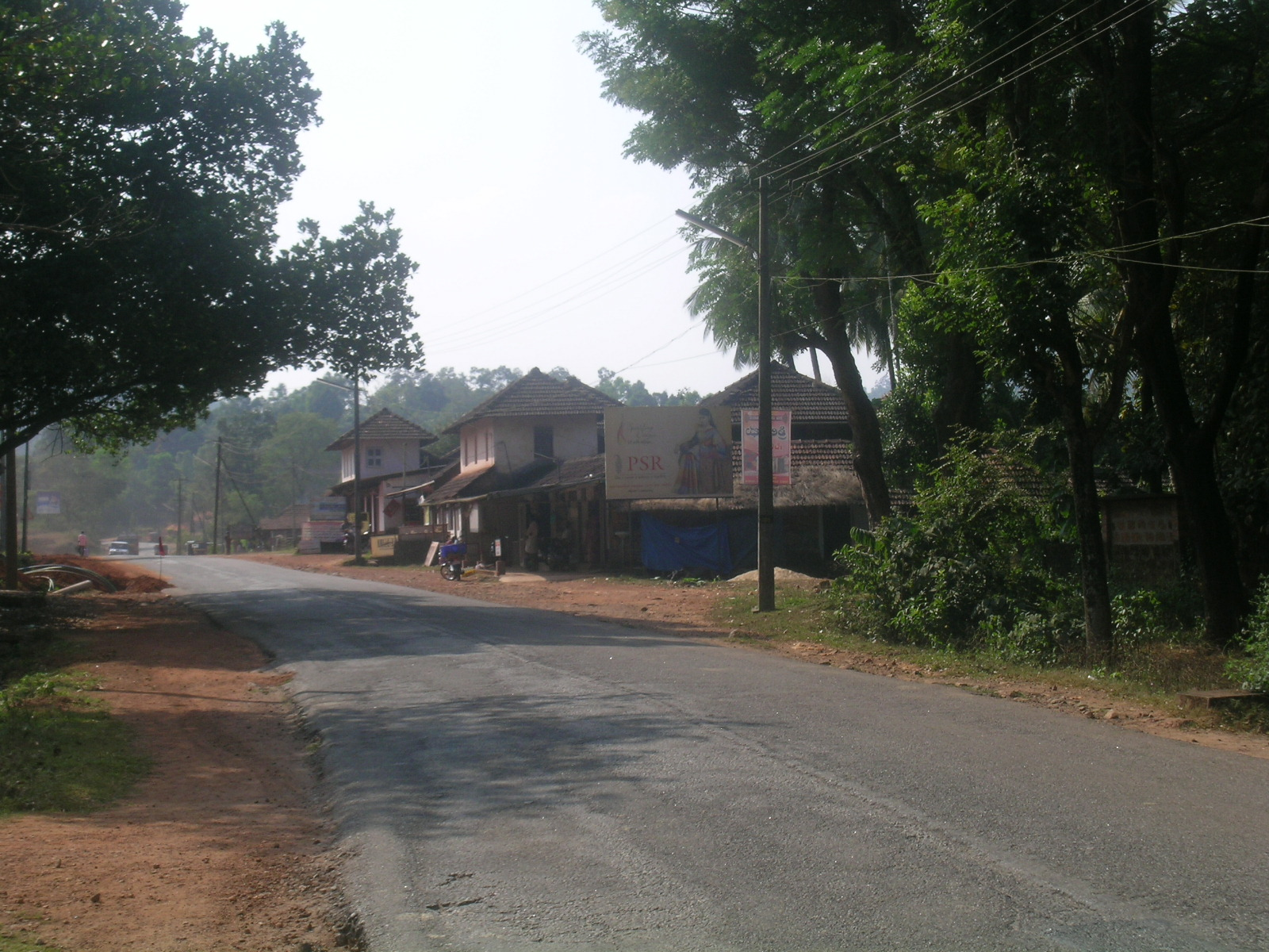 Murathangady is part of Sanoor. A small hillock seperates Murathangady and the main Sanoor.